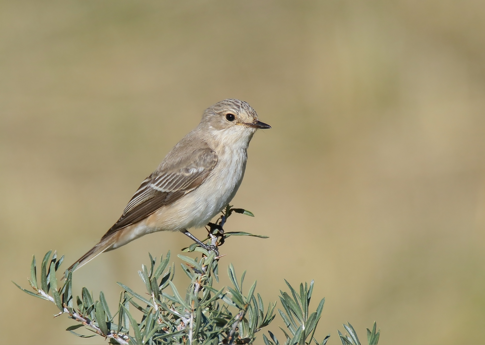 Spotted Flycatcher (Muscicapa striata) captured at Borit, Gojal, Gilgit-Baltistan, Pakistan with Canon EOS 7D Mark II